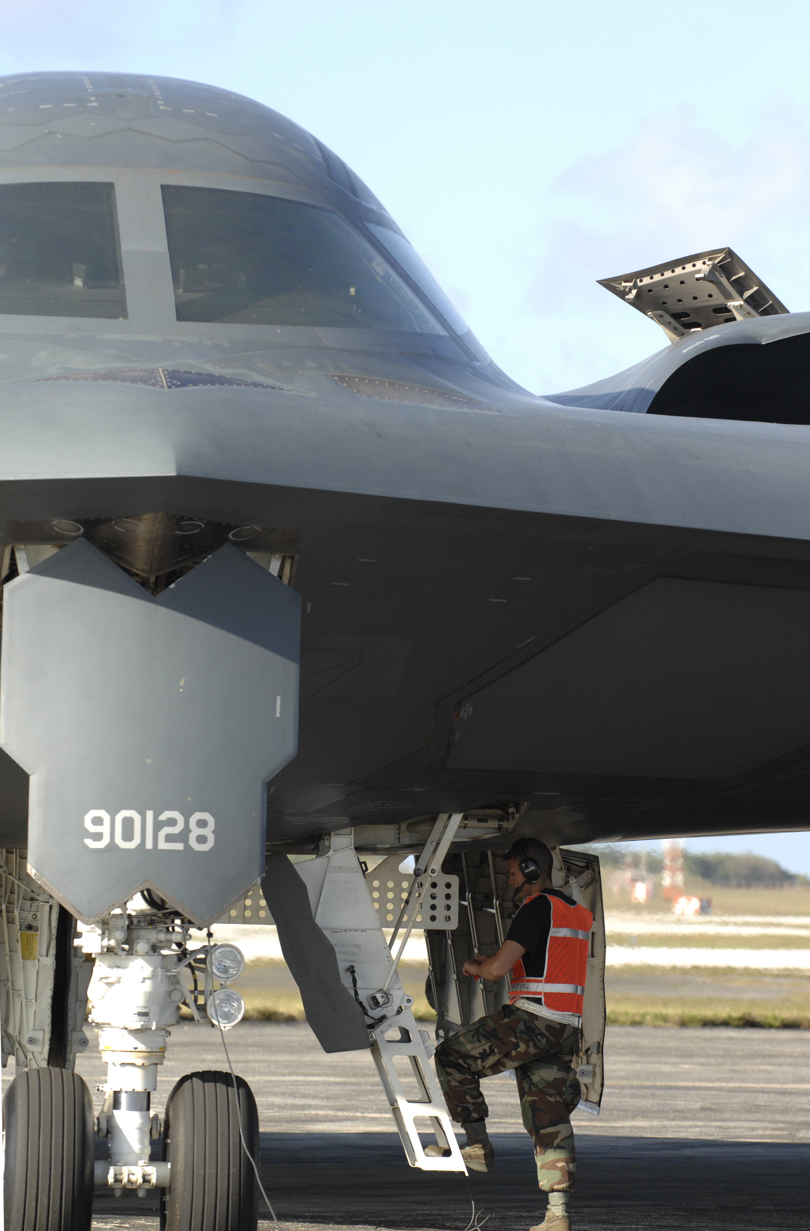 Airman 1st Class, Joshua Silva prepares to launch a B-2 Spirit from the 509th Bomb Wing, 13th Bomb Squadron Whiteman Air Force Base, Mo., March 13, during a Polar Lightning exercise originating at Andersen AFB, Guam. The Polar Lightning missions are flown to showcase the global reach and power of U.S. bomber force and at the same time the sorties give aircrews an incredible opportunity to hone their skills. Strategic bombers are part of the continuous rotating bomber presence deployed to Andersen. The bomber rotation is aimed at enhancing regional security, demonstrating U.S. commitment to the Pacific region. The Air Force will continue to rotate bombers and fighters on a regular basis to ensure regional stability. Airman Silva is deployed to Andersen and assigned to the 36th Expeditionary Maintenance Squadron. (U.S. Air Force photo/ Master Sgt. Kevin J. Gruenwald) released